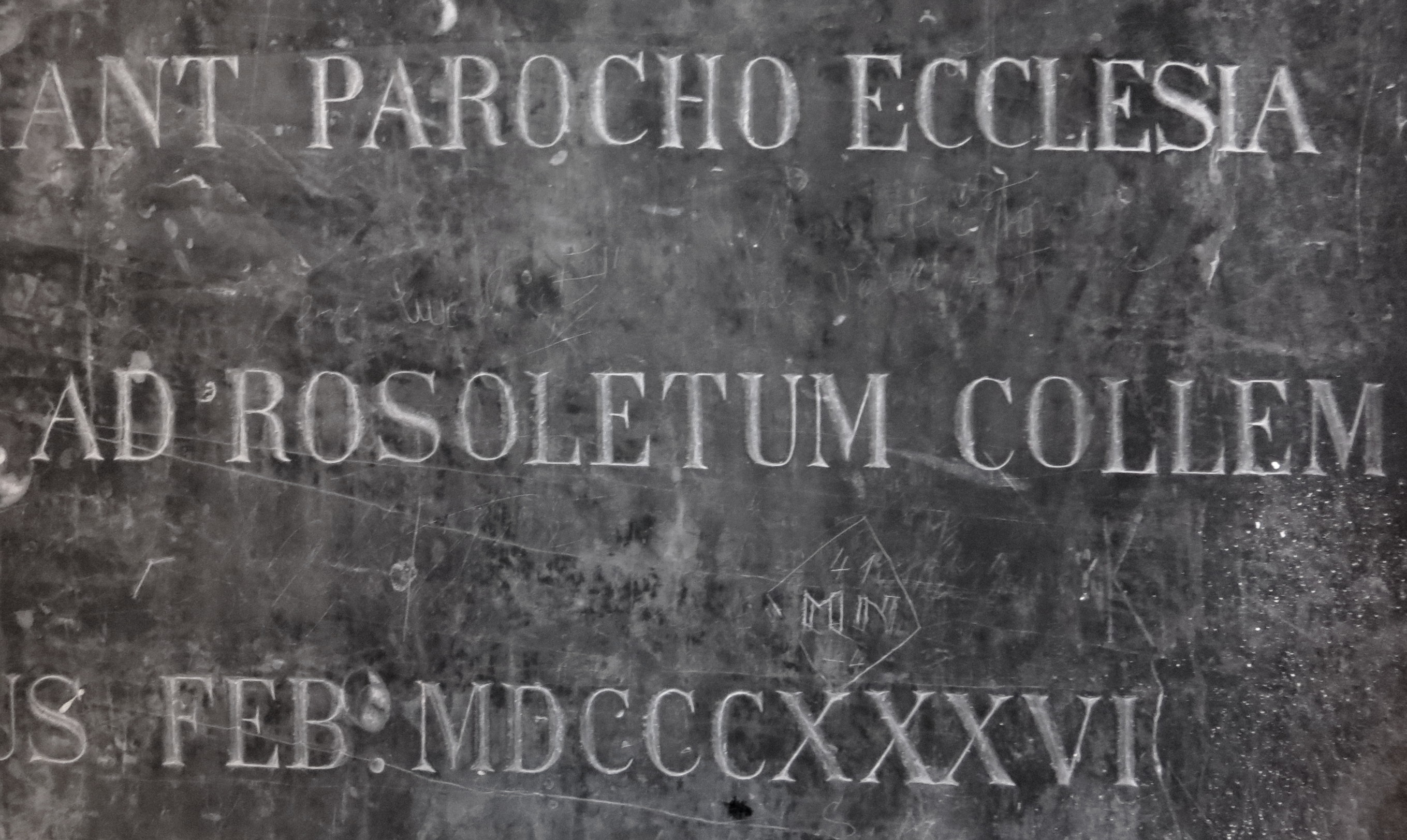 1836 Latin inscription in Visitation Church, Rožnik Hill, Ljubljana mentioning the hill